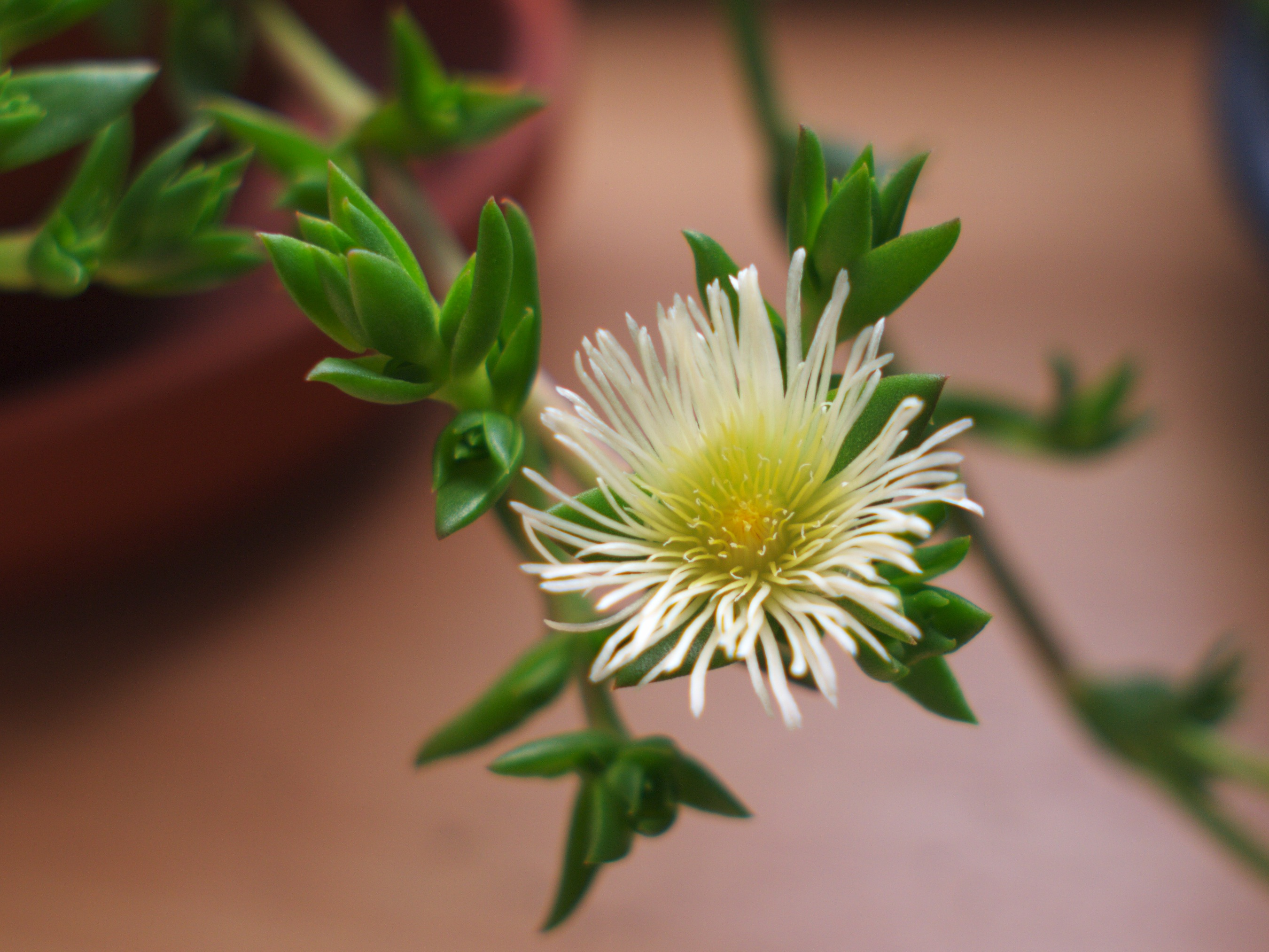 Flower of Sceletium tortuosum.